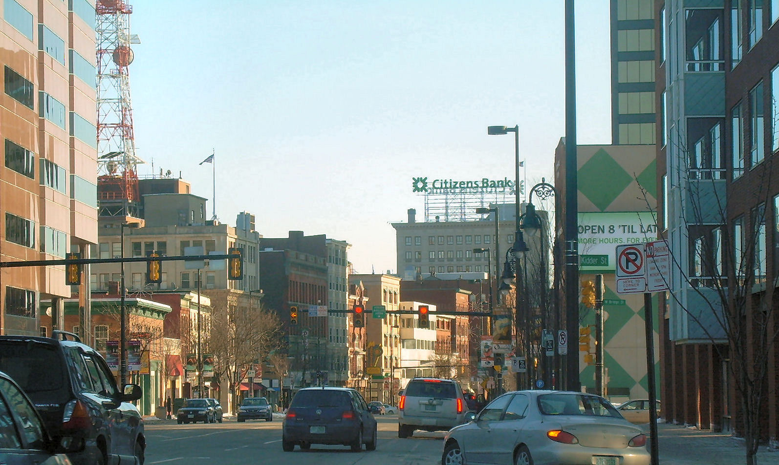 View of Elm Street, in Manchester, New Hampshire.